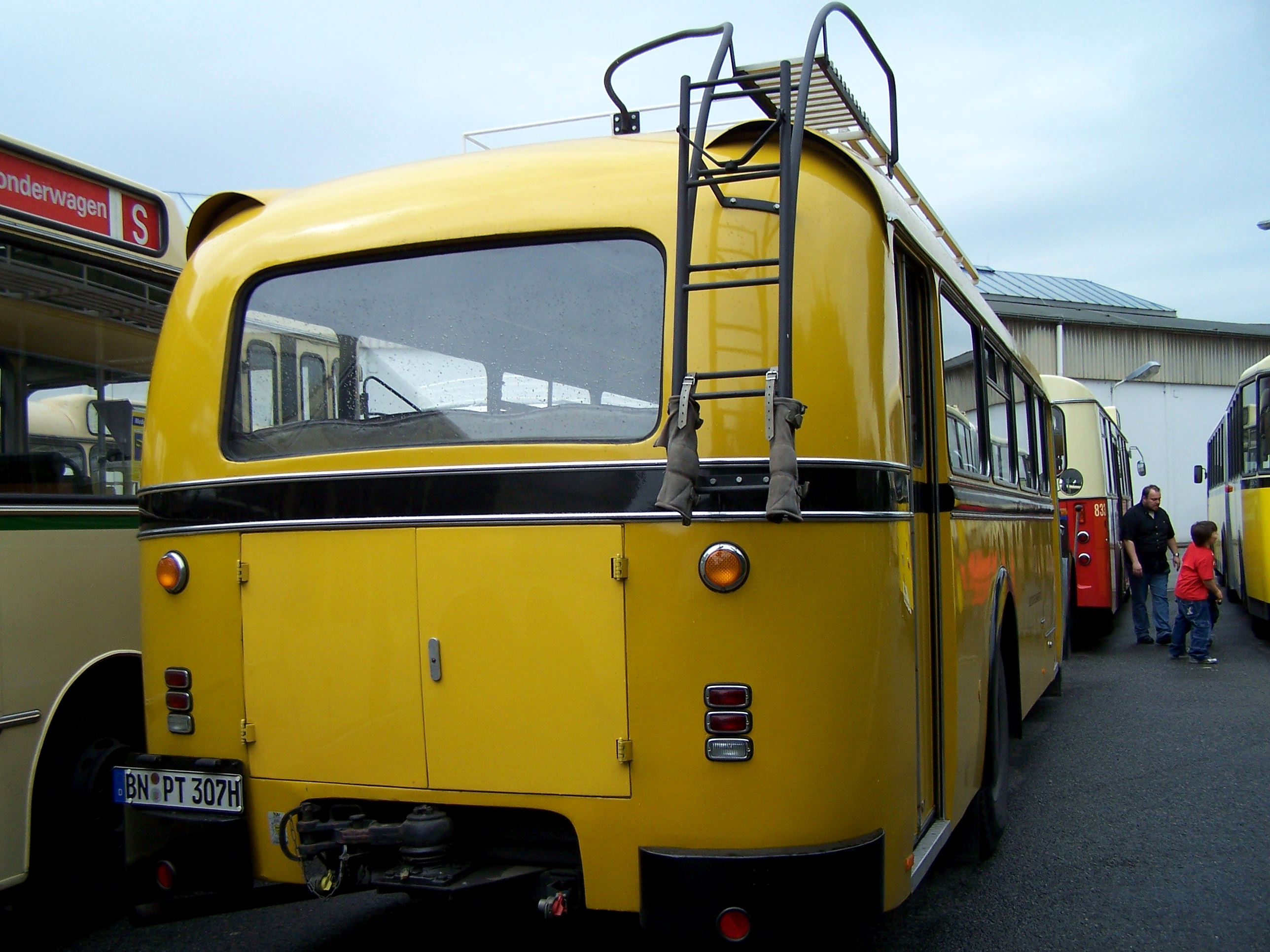 Historical post bus manufactured by MAN on an extra tour in Frankfurt am Main--Rebstock